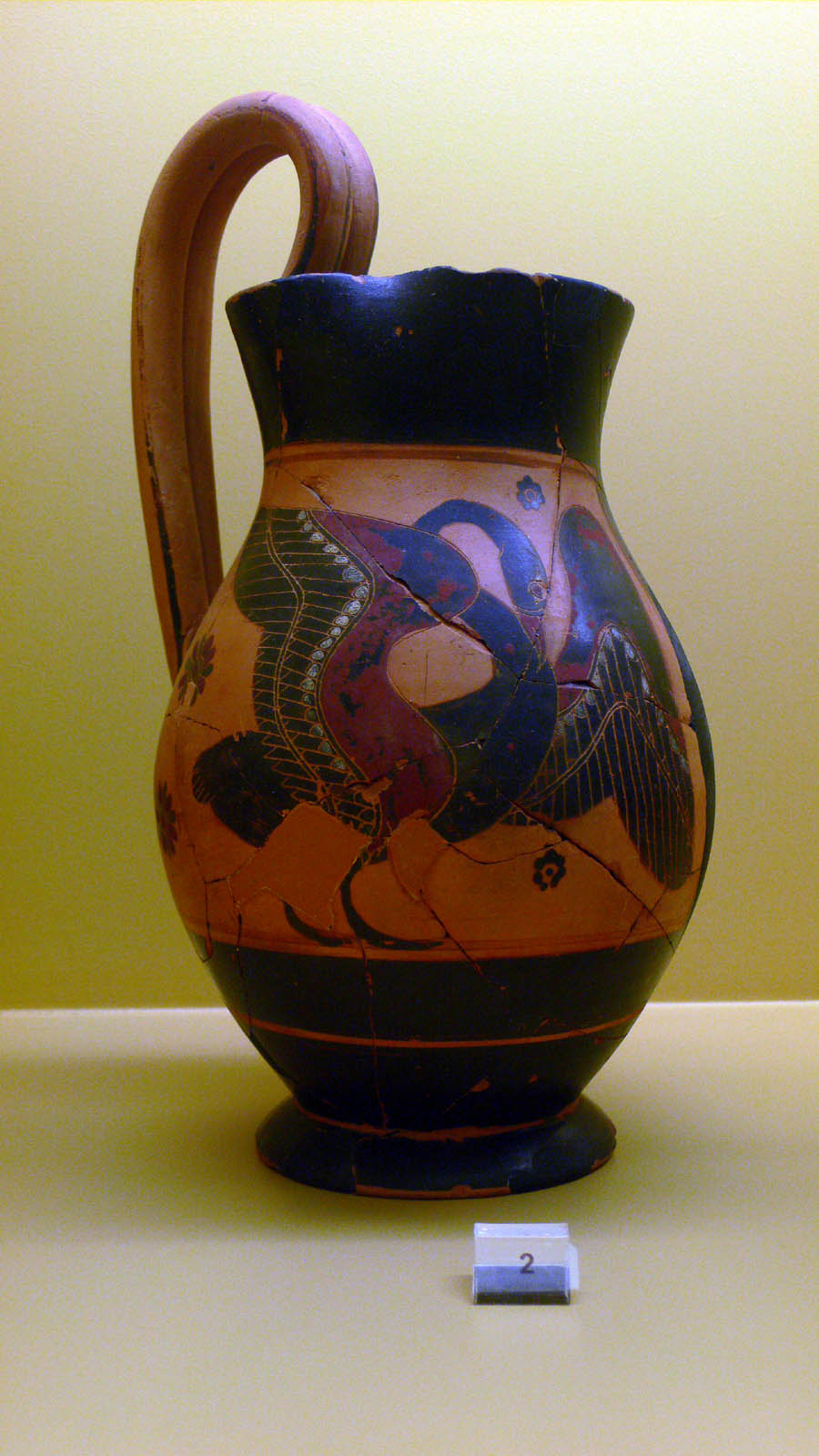 Trefoil-mouthed olpe depicting a swan.